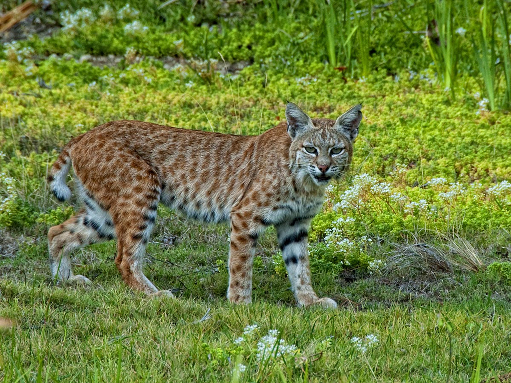 California bobcat, Lynx rufus, Bill Wight, Rancho Cucamonga, CA USA